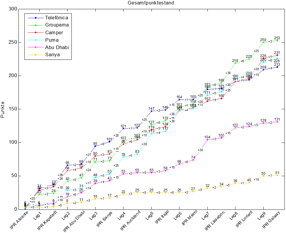 Volvo Ocean Race 2011-2012 Overall Scores